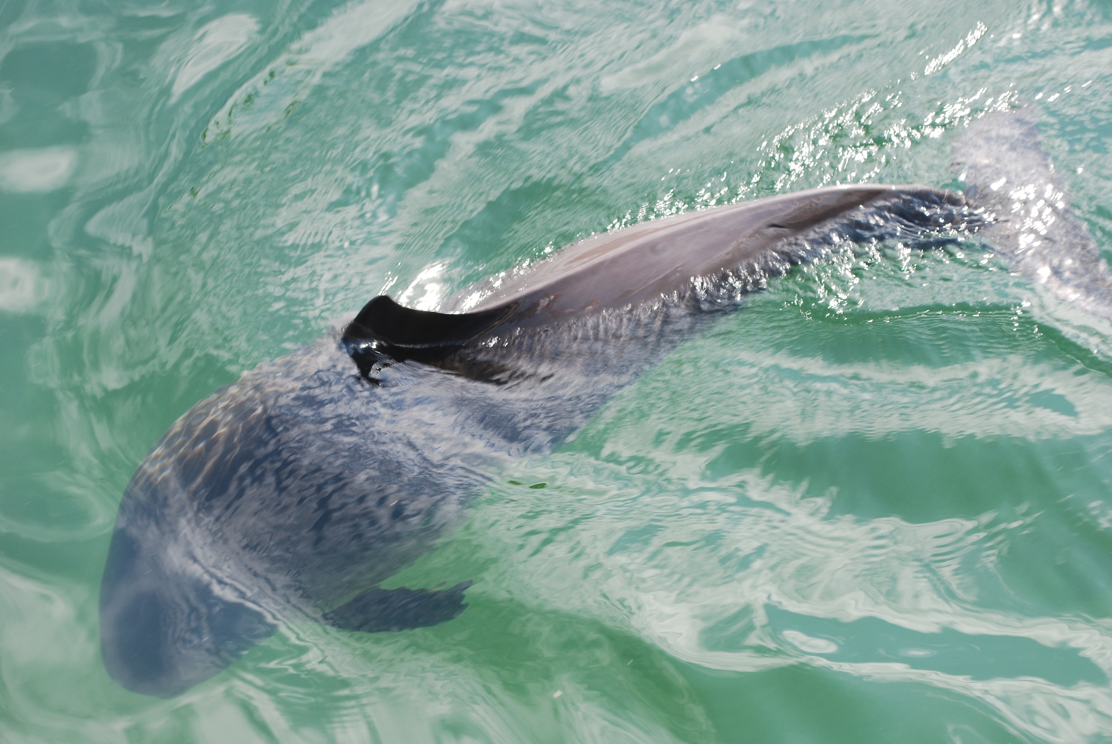 The Harbor Porpoise (Phocoena phocoena) is one of six species of porpoise